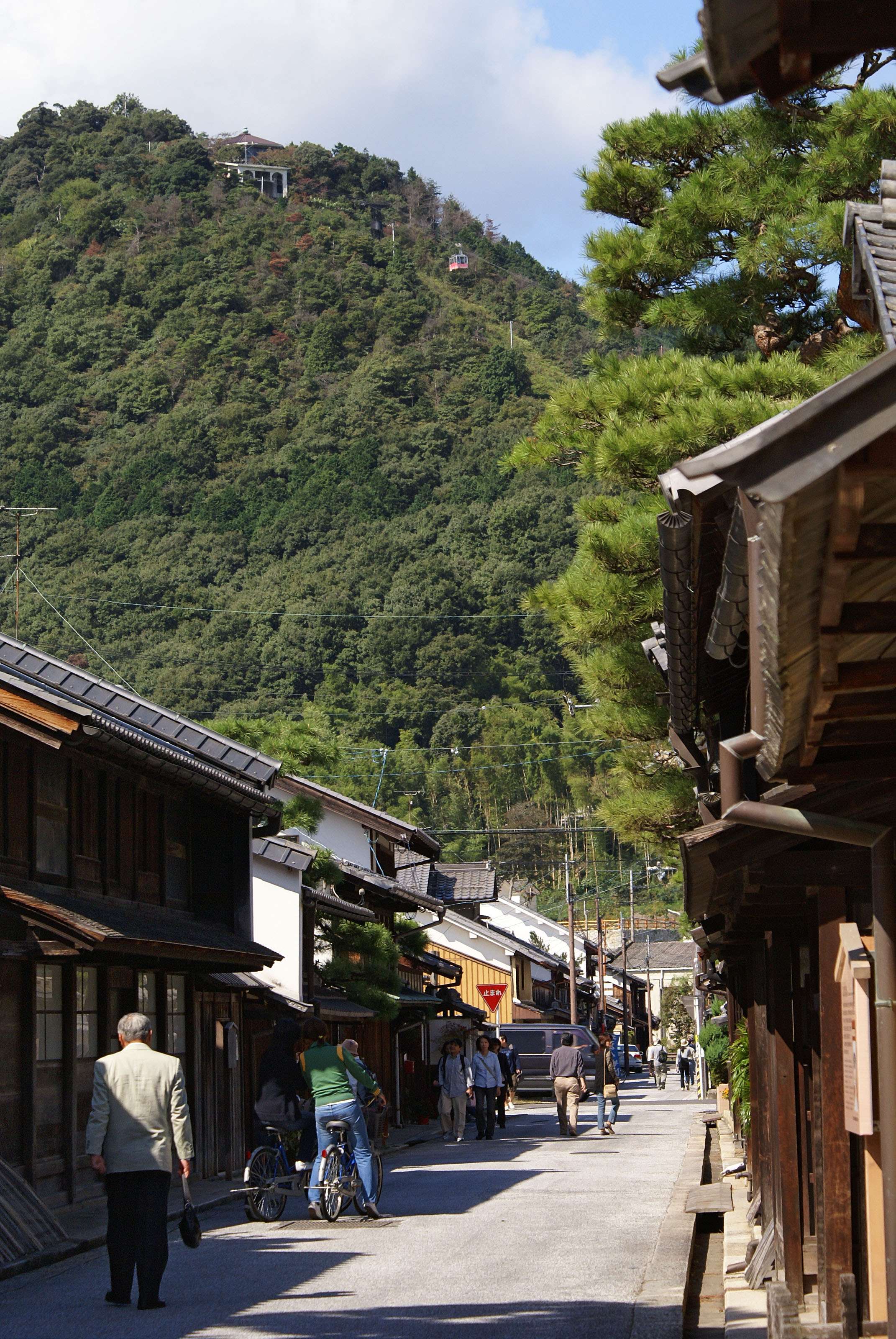 Shinmachi-street in Omihachiman, Shiga, Japan